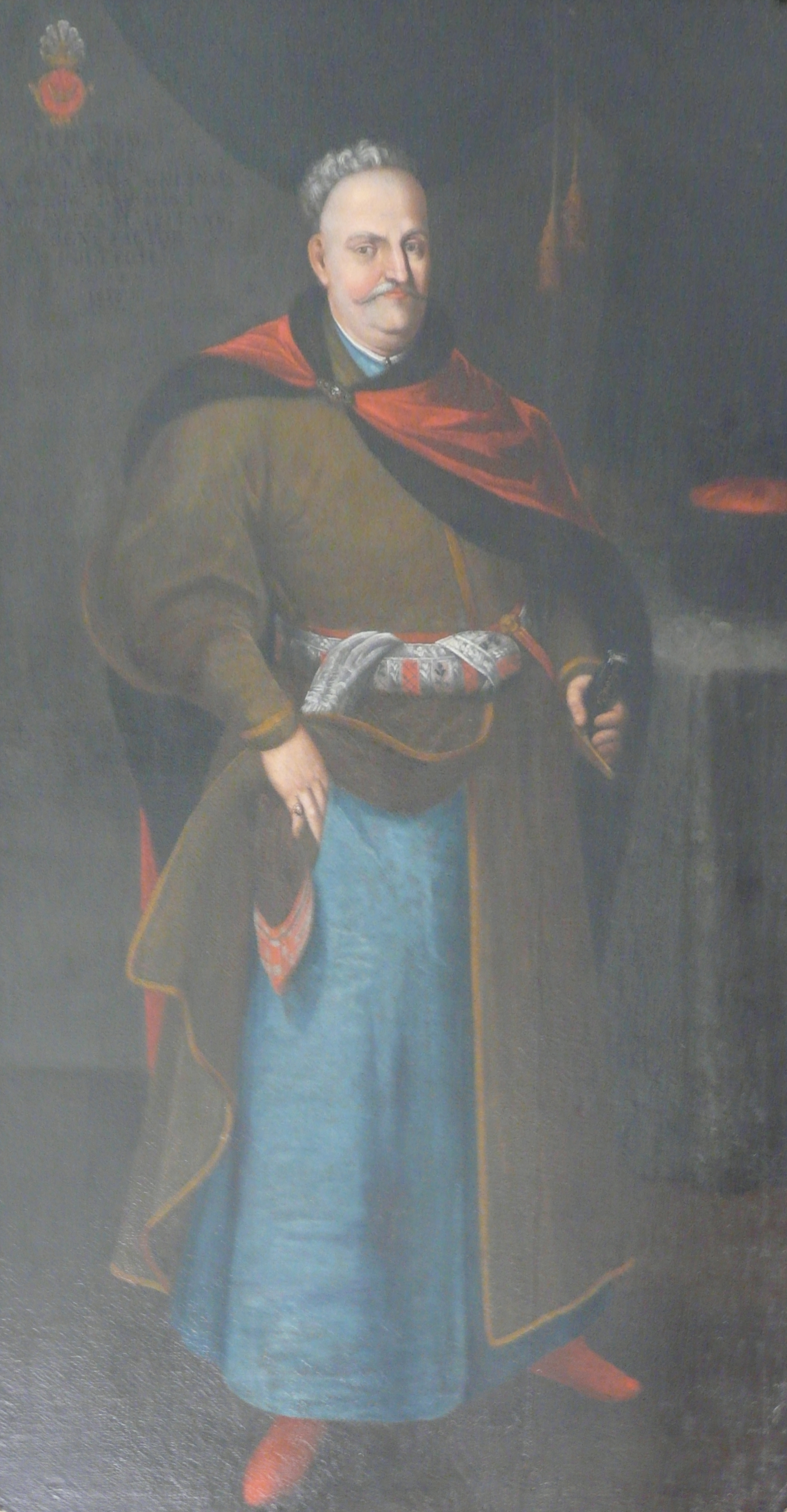 From the collection of the National Museum in Poznań. Portrait of Hieronim Poniński (?-1700 or 1701) of Łodzia coat of arms. Unknown painter of Wielkpolska, early in the 18th century.